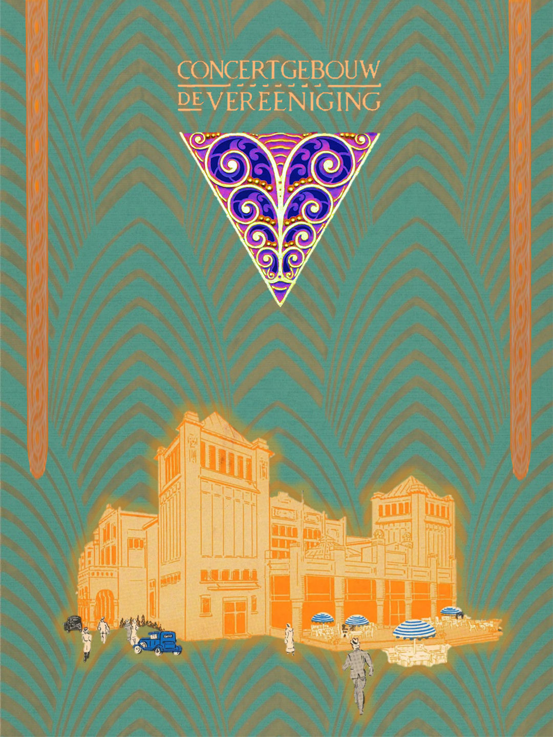 Concert building de Vereeniging Nijmegen Art Deco Art Nouveau 2018 Oscar Leeuw Roger Veringmeier